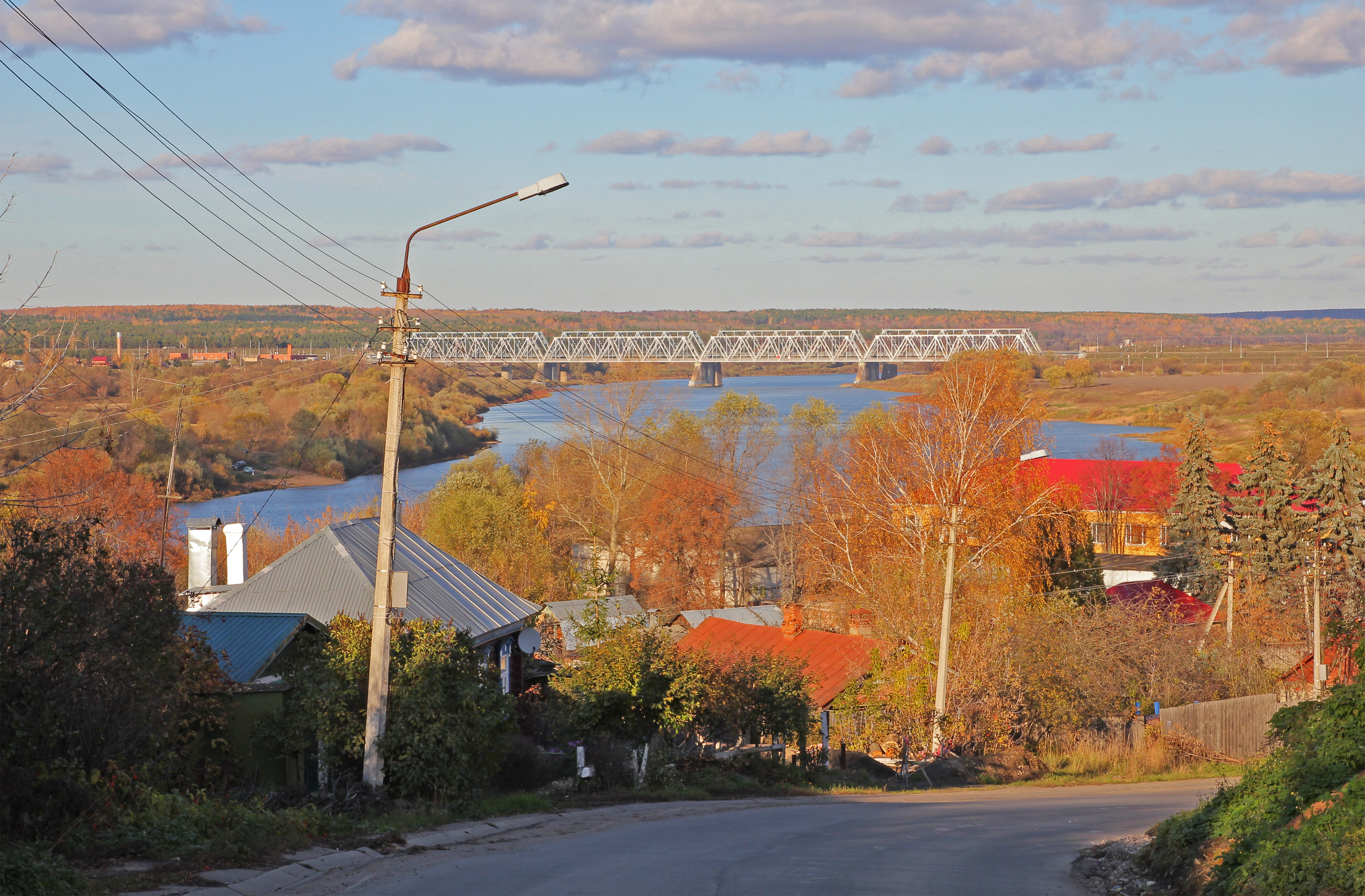 Kashira town, Moscow Oblast, Russia: View from Sovetskaya street on the Oka River and the railway bridge of Moscow-Pavelets Railway